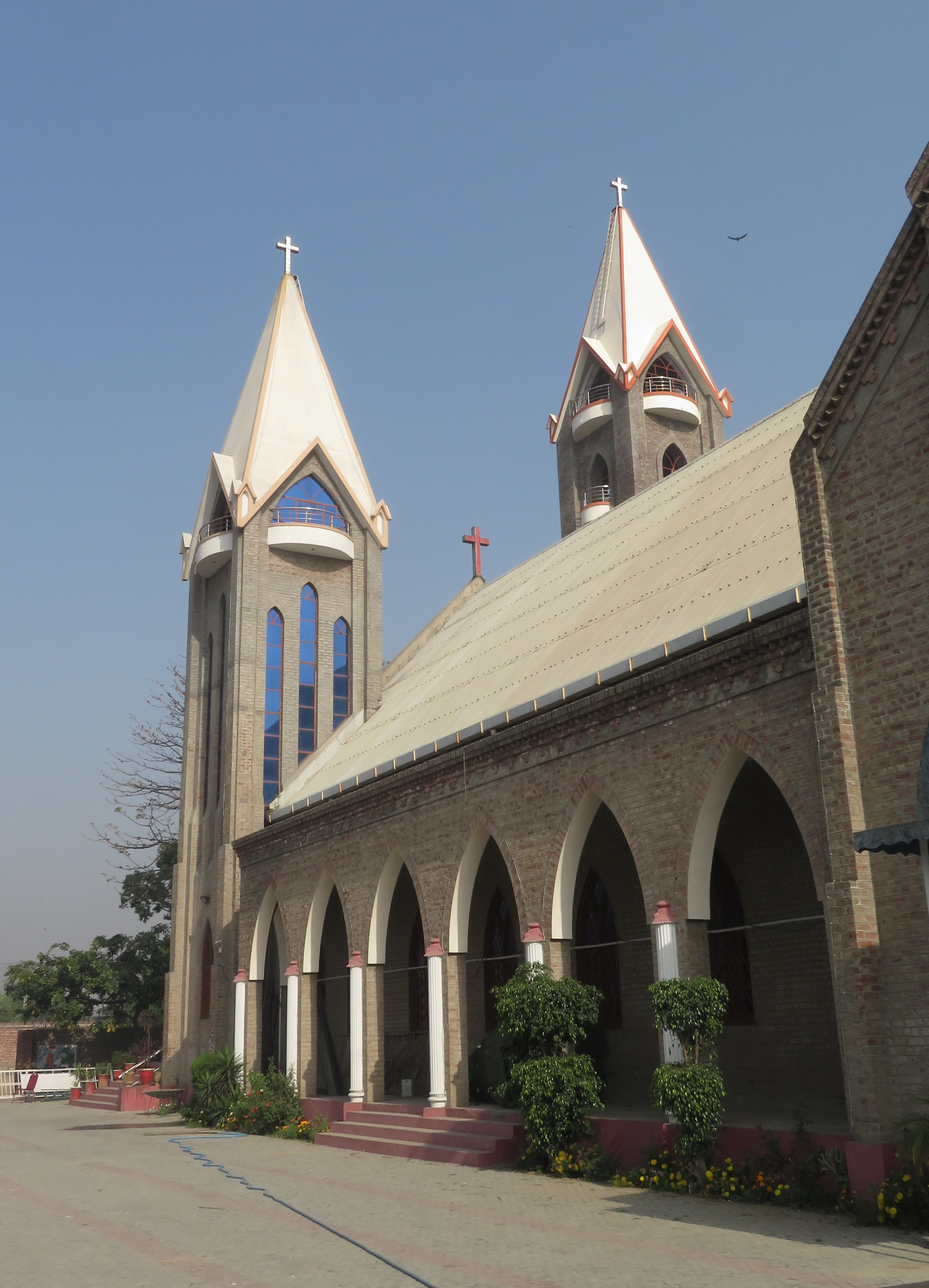 Presbyterian Church, Gujranwala, Pakistan